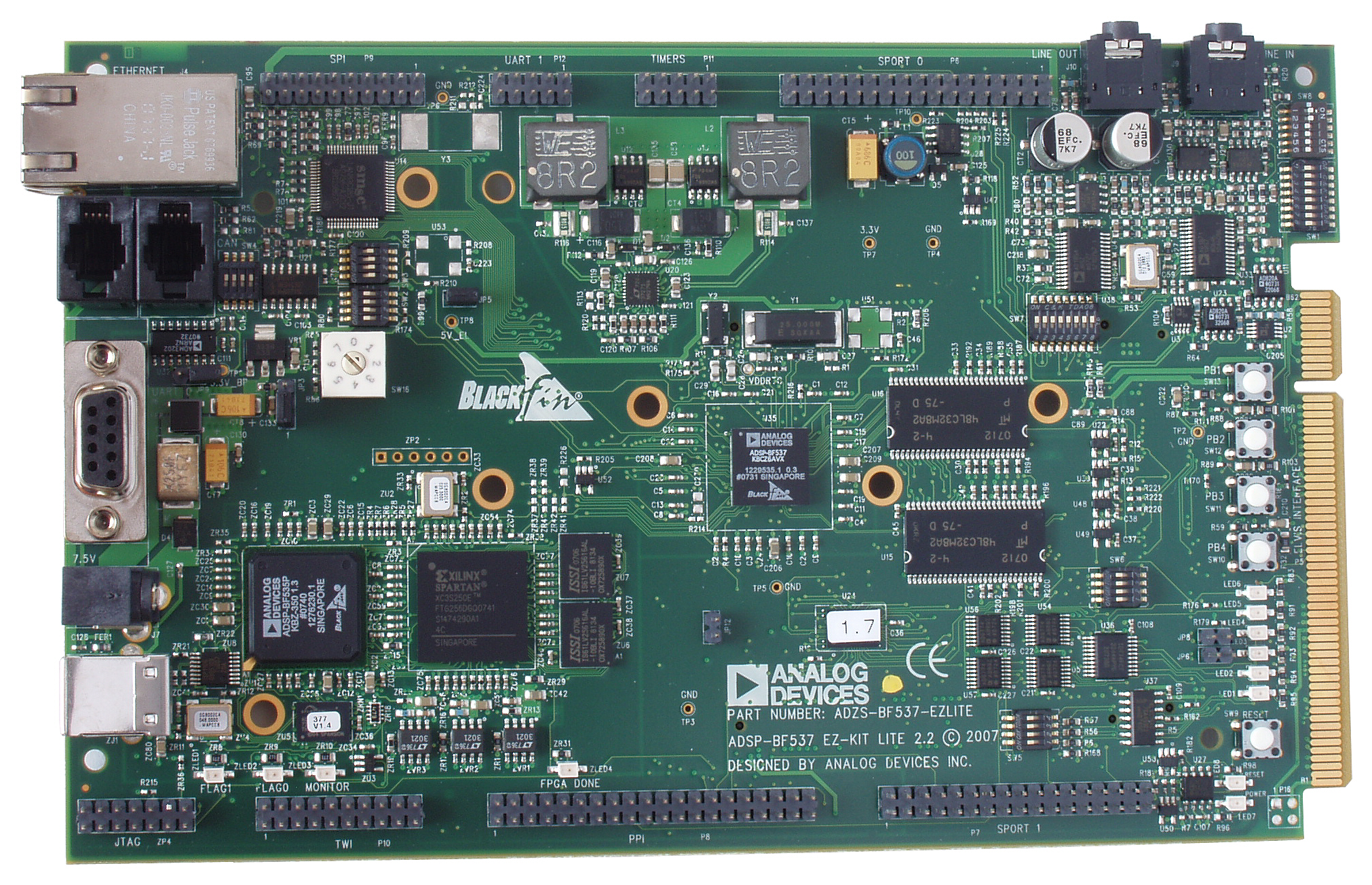 Analog Devices Blackfin evaluation platform EZ-Kit-Lite for BF537 microcontroller/DSP